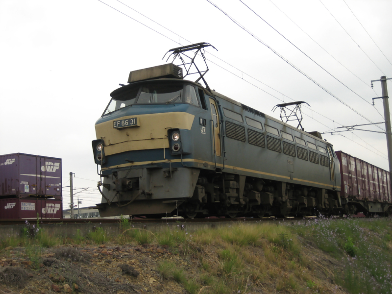 EF 66 series electric locomotive entering Gifu Freight Terminal